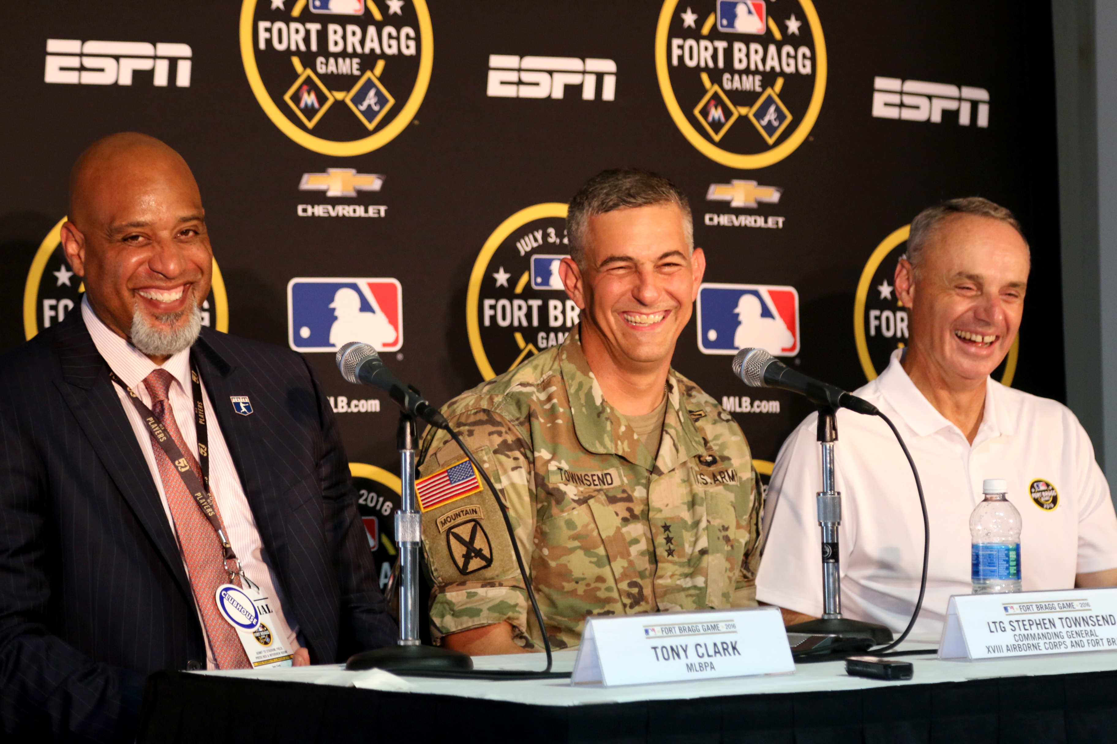 Major League Baseball Player Association Executive Director Tony Clark, Lt. Gen. Stephen Townsend, Commanding General, XVIII Airborne Corps and Robert D. Manfred Jr., Commissioner for Major League Baseball, react during a press conference prior to the start of the Atlanta Braves and Miami Marlins regular season game played at Fort Bragg Field on Sunday, July 3, 2016 at Fort Bragg, N.C. Fort Bragg, MLB and the MLBPA teamed up to put on the historic regular season game between the Braves and Marlins at Fort Bragg. (US Army photo by Staff Sgt. Jason Duhr) Unit: 108th Air Defense Artillery Brigade